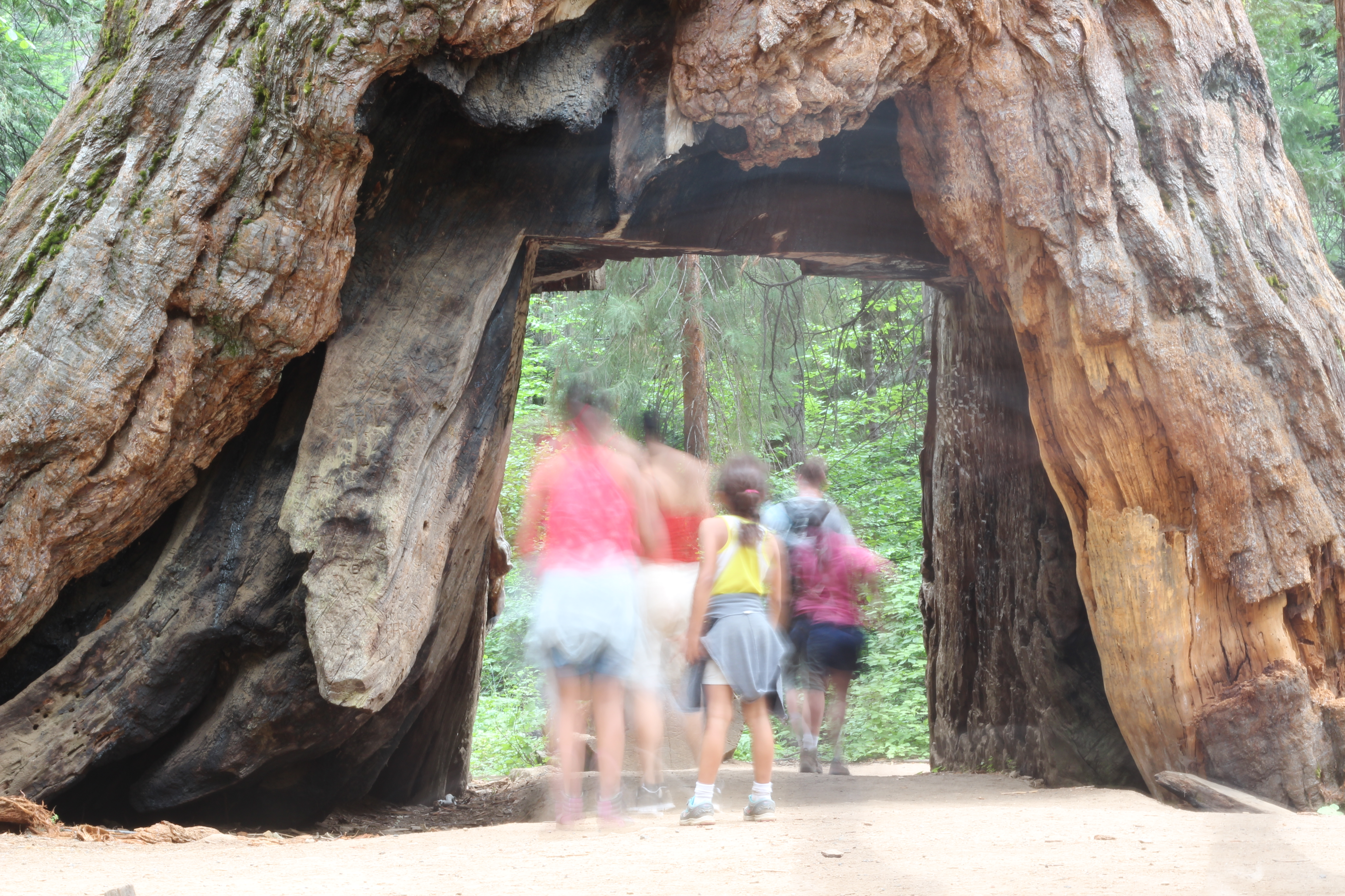 Someone carved a hole through this giant sequoia somewhere in the 19th century. It is located in the Calaveras Big Trees State Park in California.